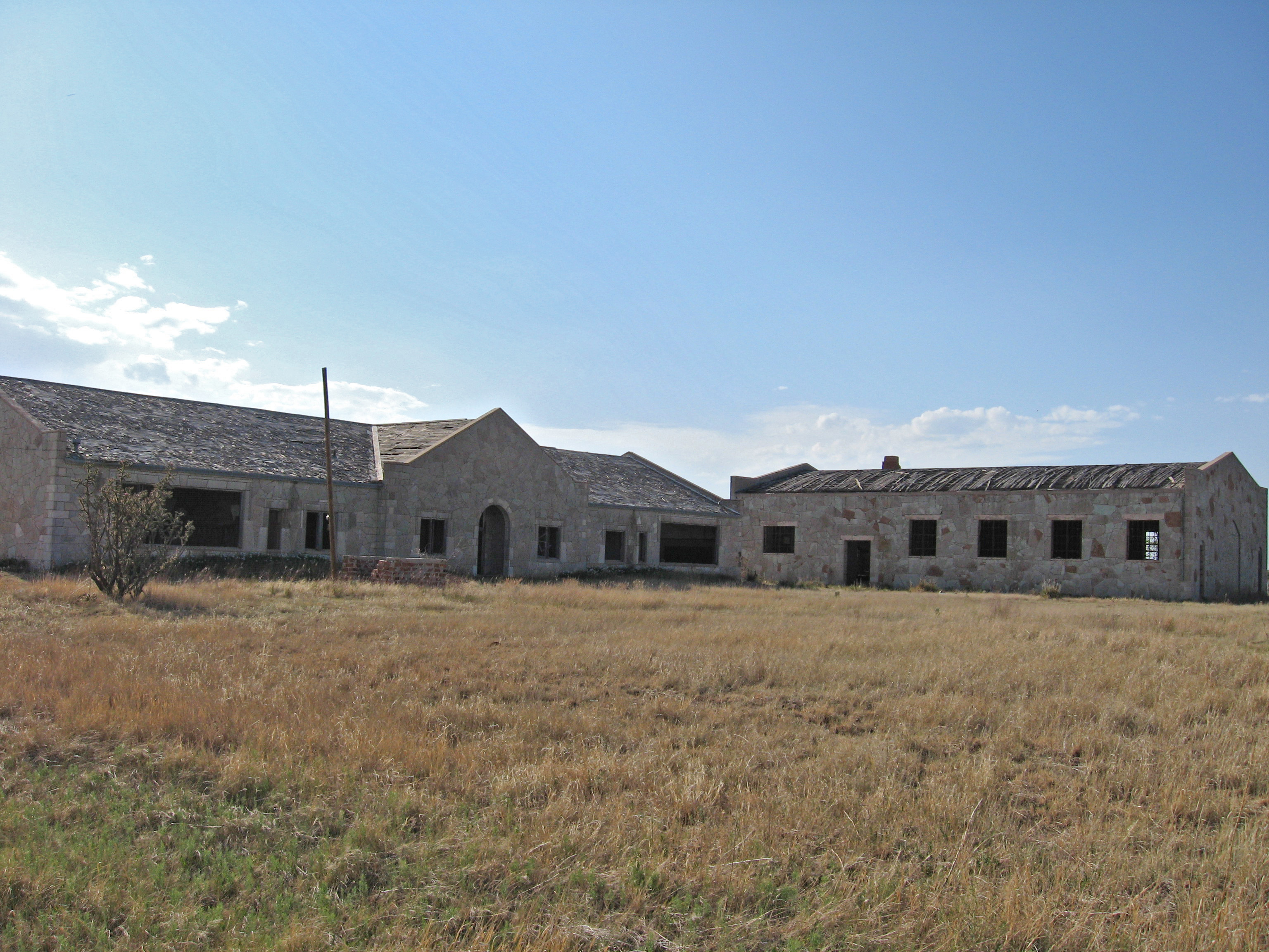 Abandoned school in Wheatland, New Mexico (main building (left) & gymnasium)